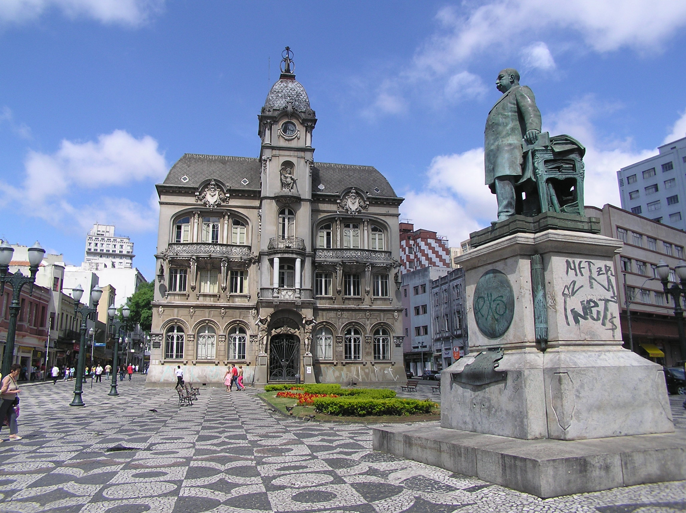 O Paço municipal: The building in Praça Generoso Marques. It was Parana state public office building before and a Museu Paranaense(Parana Museum) until 4 October 2002.